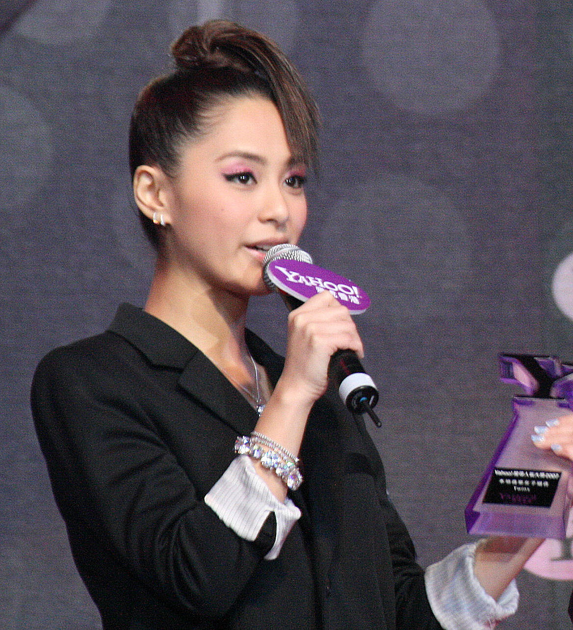 Twins, Gillian Chung (image cropped)